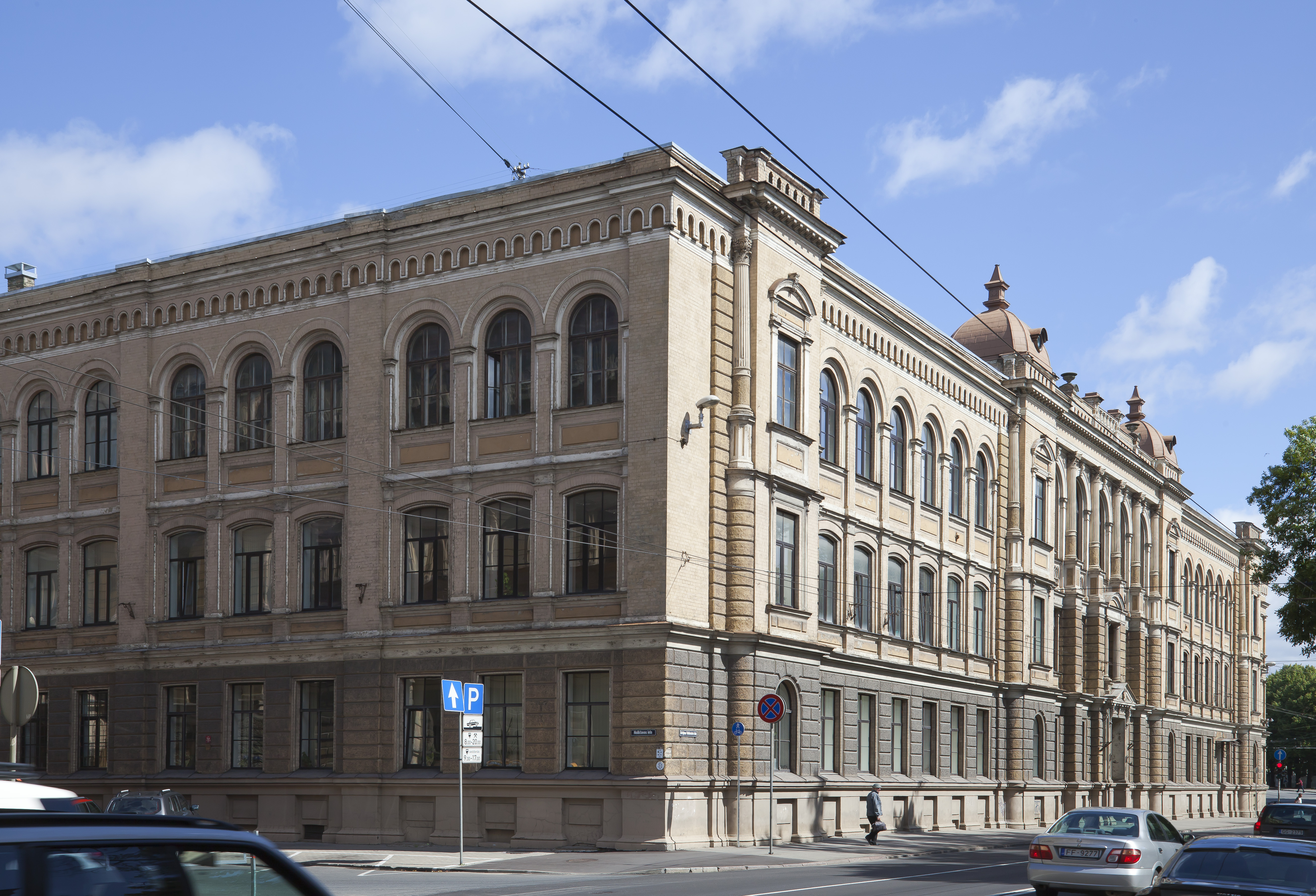 Building in Krisjiana Valdemara iela, Riga, Latvia